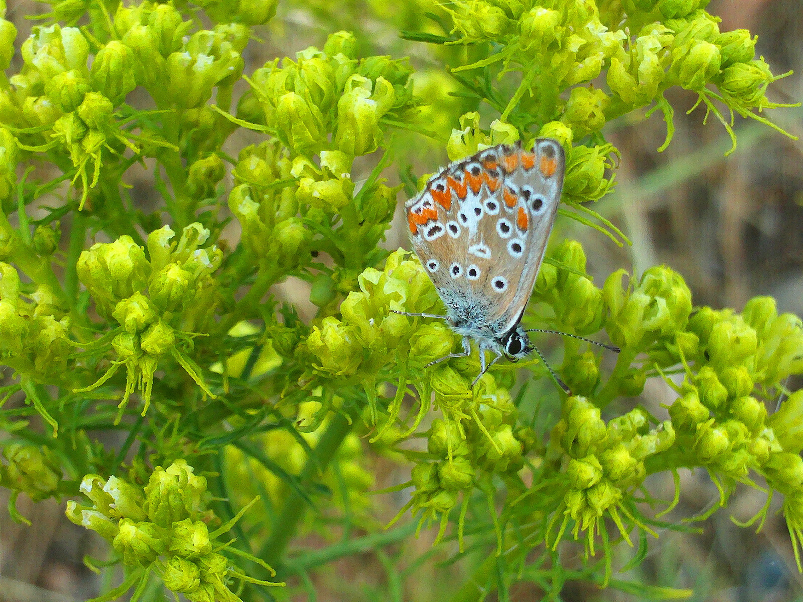 Ruta montana flowers close up and pollinator, Campo de Calatrava, Spain